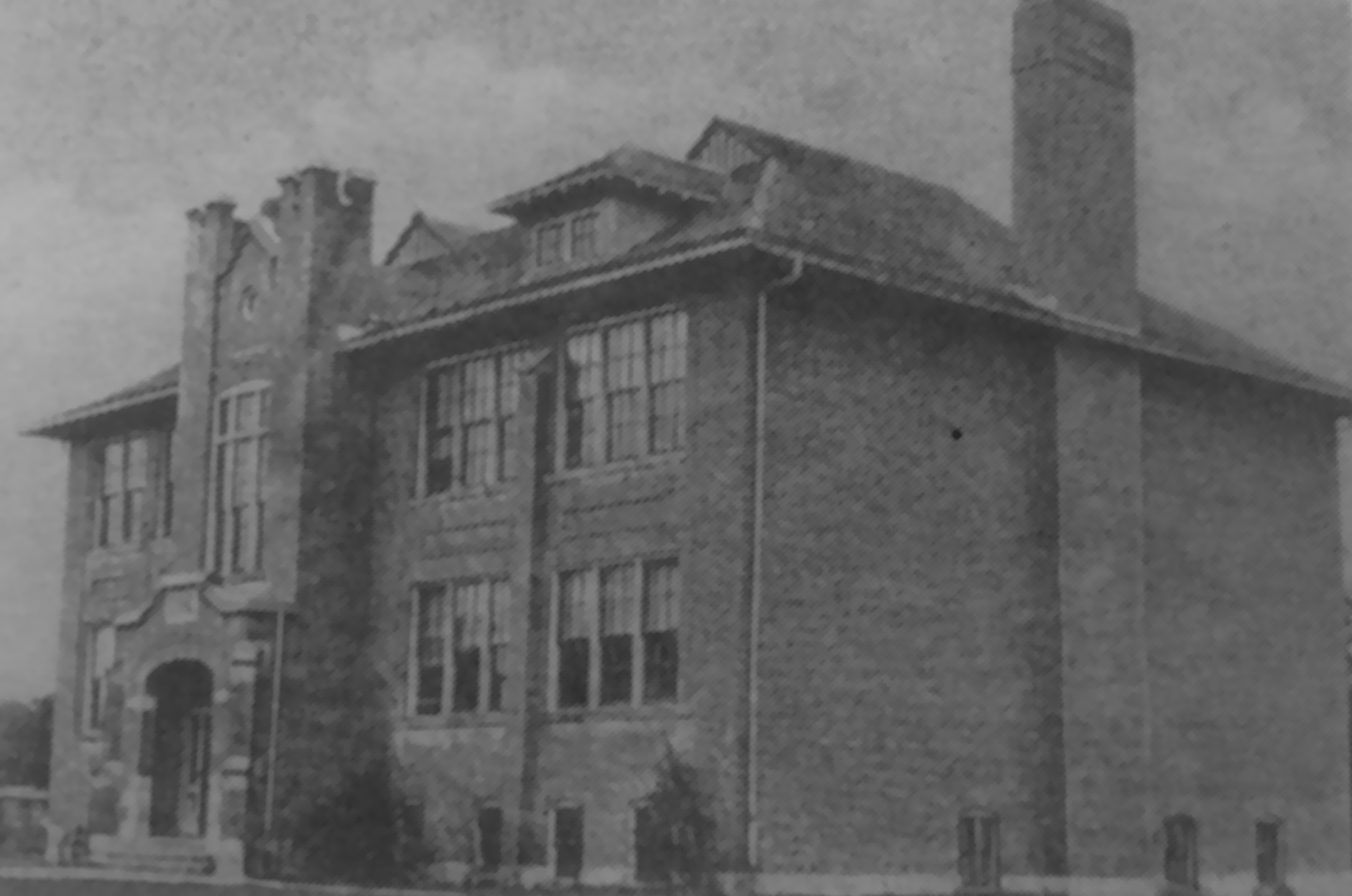 The Artemesia Rural High School, later renamed Flesherton District High School, built in 1910 in Flesherton, Ontario, Canada and destroyed by fire in 1952.